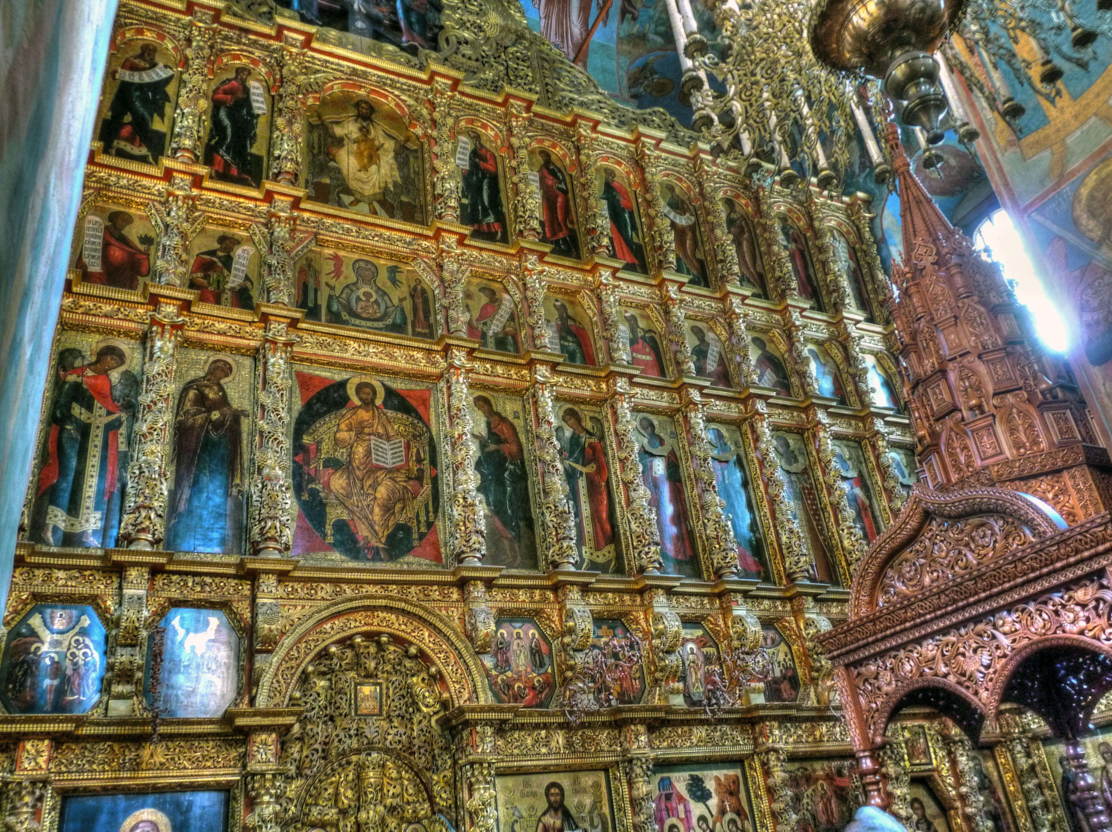 Trinity Cath Iconostasis HDR